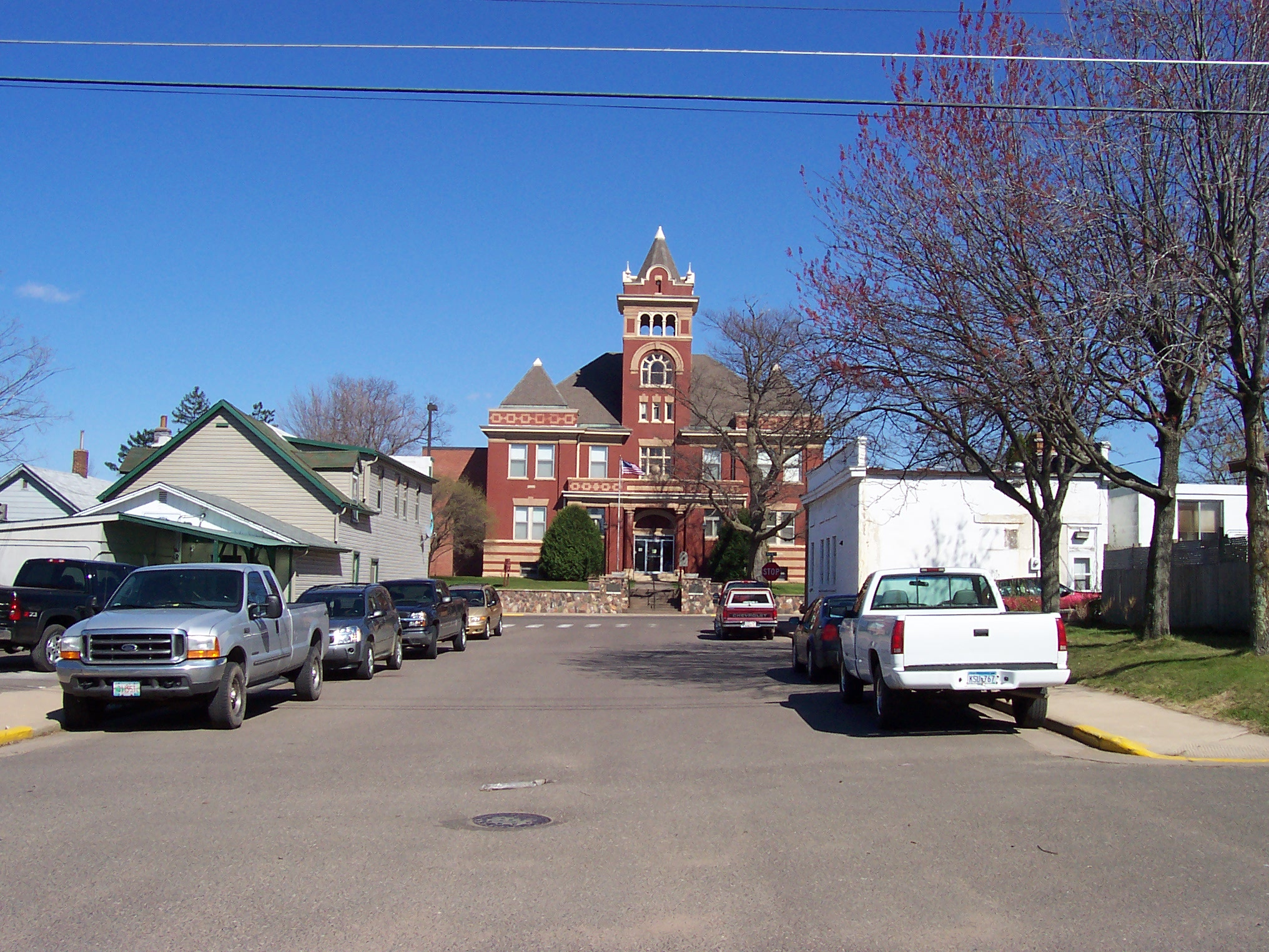 From a distance, looking at the Polk County courthouse in Balsam Lake, Wisconsin. Picture taken by me (Iulus Ascanius).